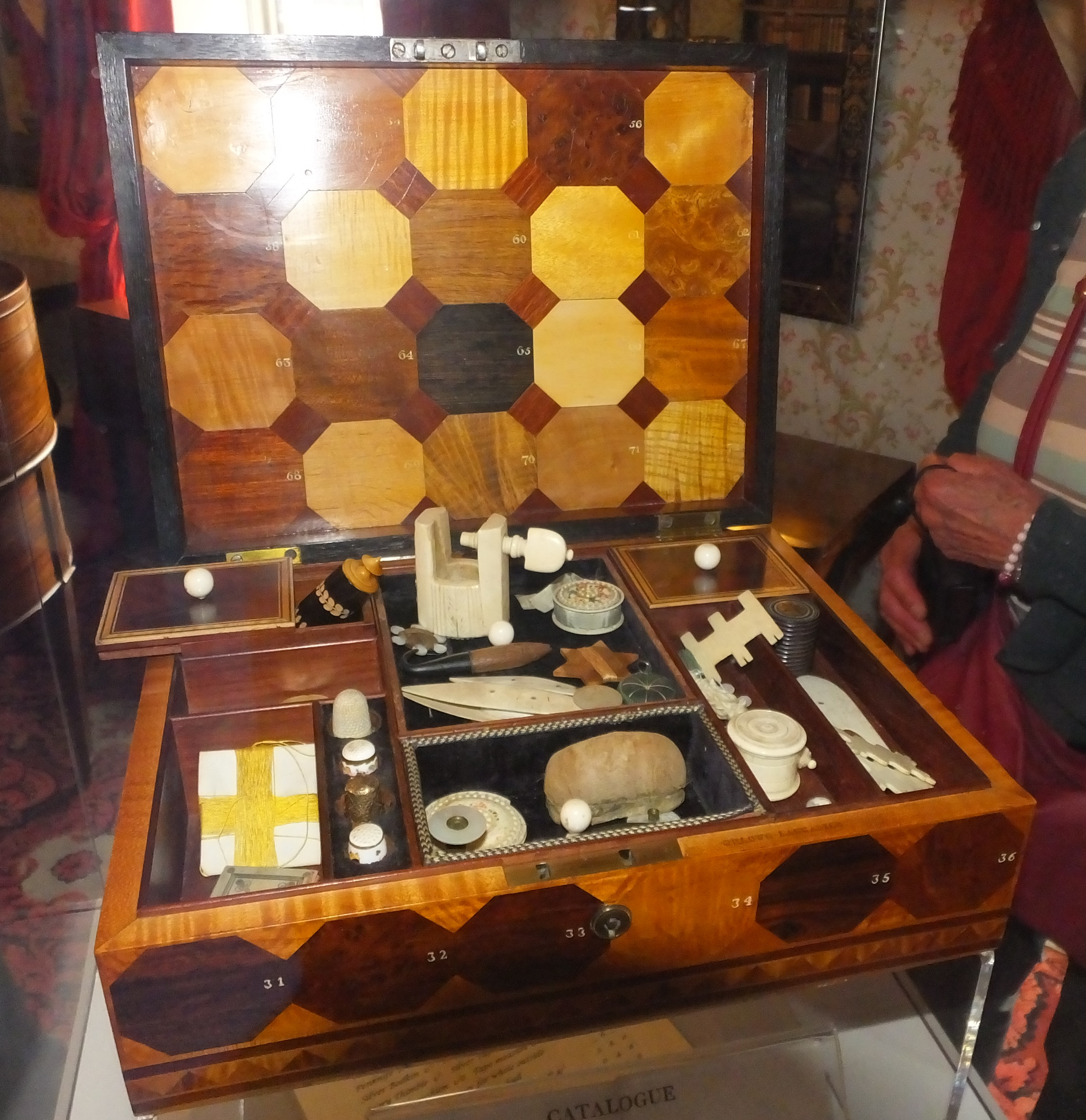 Taken during the tour and editathon at the Judges' Lodgings, Lancaster. Ladies workbox for Miss Elizabeth Gifford by Francis Dowbiggin 1808 This marquetry adornedLady's Workbox was made by Francis Dowbiggin. It is documented in the Gillow Estimate Sketchbooks in 1808. The recipient was Miss Elizabeth Gifford of Nerquis, Flintshire, North Wales (Nercwys Hall). The workbox is decorated with 72 rare and curious woods which are listed in the English Wikipedia article.